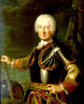 Léopold Philippe d'Arenberg (1690-1754), fourth sovereign duke of Arenberg and 10th duke of Aarschot